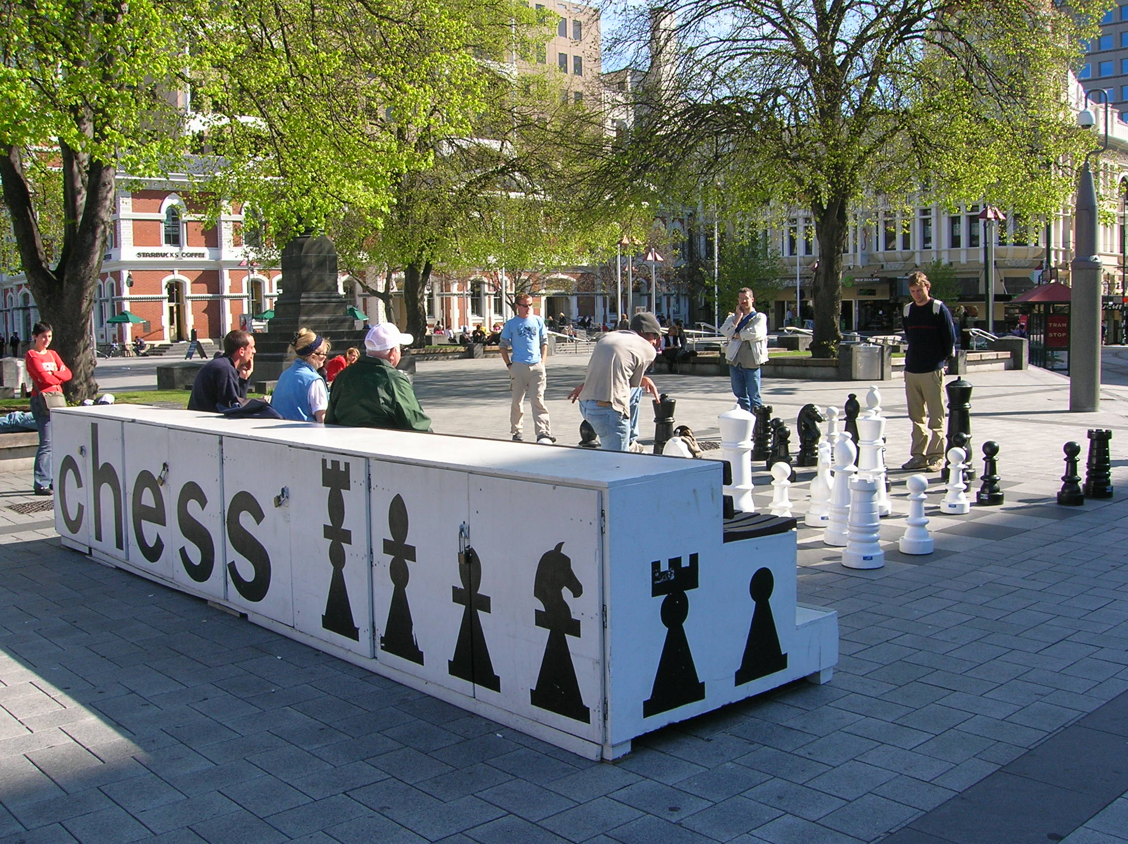 Chess in Christchurch, New Zealand. Local (Gary) playing unidentified tourist (as indicated by the back-pack)